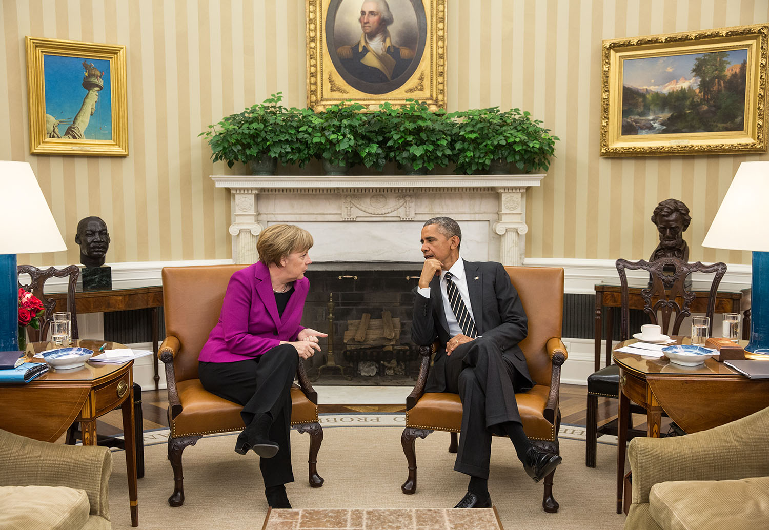 President Barack Obama holds a bilateral meeting with Chancellor Angela Merkel of Germany in the Oval Office